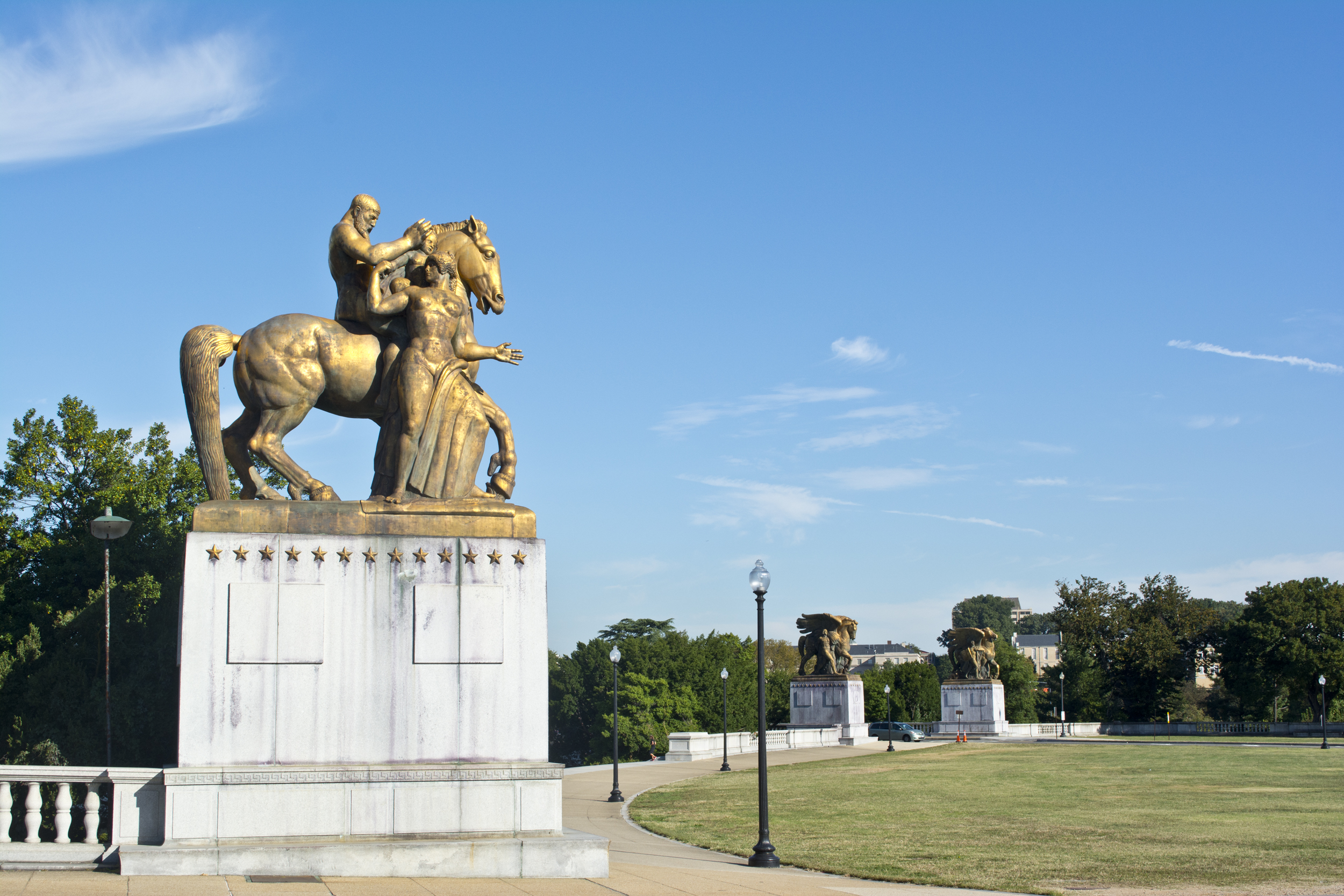 Looking northwest at the statue "Sacrifice", one of two statues that make up the work The Arts of War. The Arts of War are statues which adorn either side of the northeastern end of Arlington Memorial Bridge in Washington, D.C., in the United States. They were designed by sculptor Leo Friedlander, and erected in 1951. The statue features a nude male riding a stallion. The man holds an male infant in his arms. To the male's right, a woman (nude from the waist up) stands parallel to the horse, her right hand raised as if to caress the man's arm. The statue is intended to symbolize the sacrifices made during wartime. In the background are The Arts of Peace, which frame the entrance to the Rock Creek & Potomac Parkway.